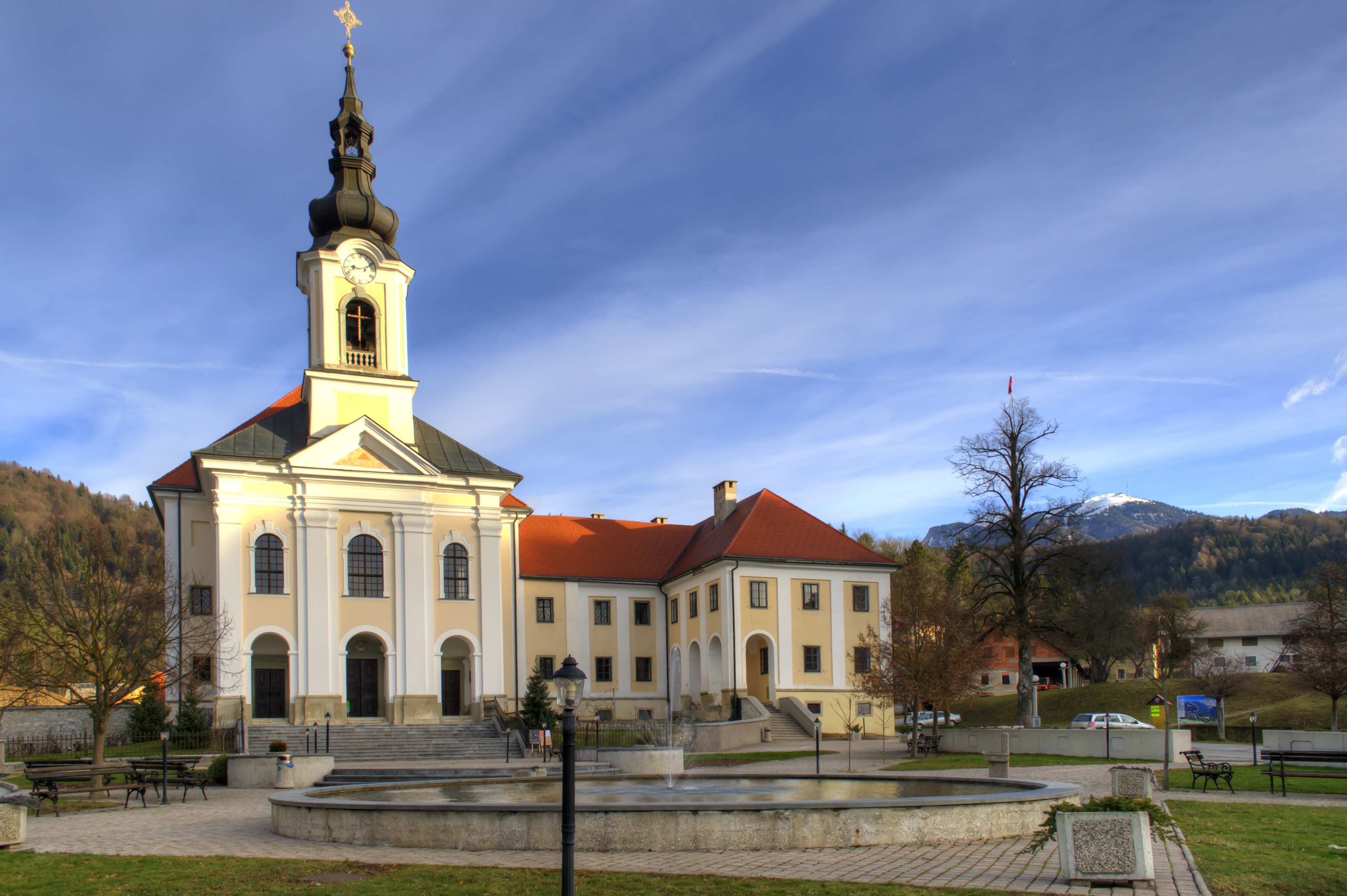 Church of the Annunciation, AdergasSlovenščina: Cerkev Marijinega oznanenja, Adergas